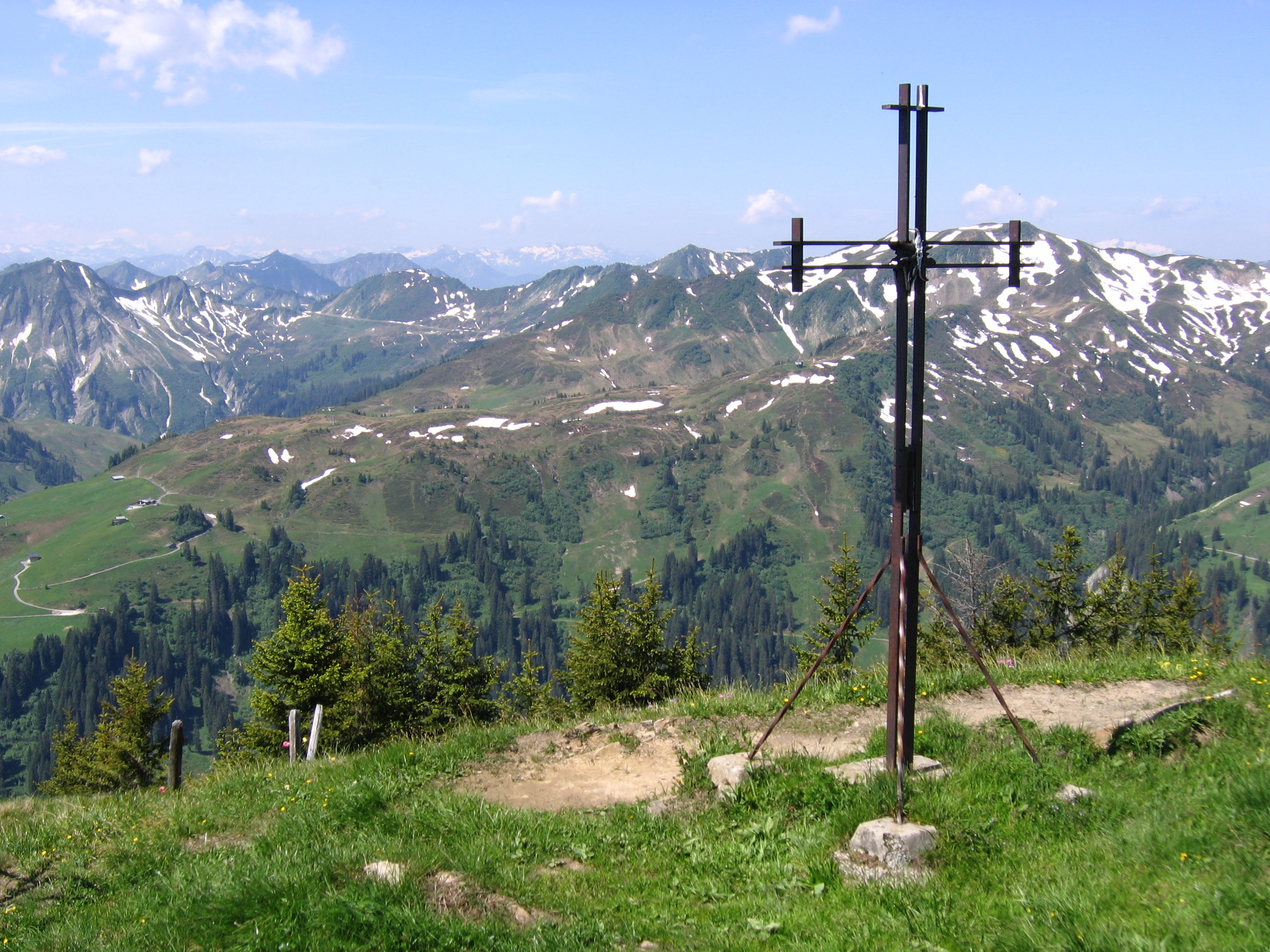 Austria - Vorarlberg - district Bregenz - Damüls: Elsenkopf, summit cross